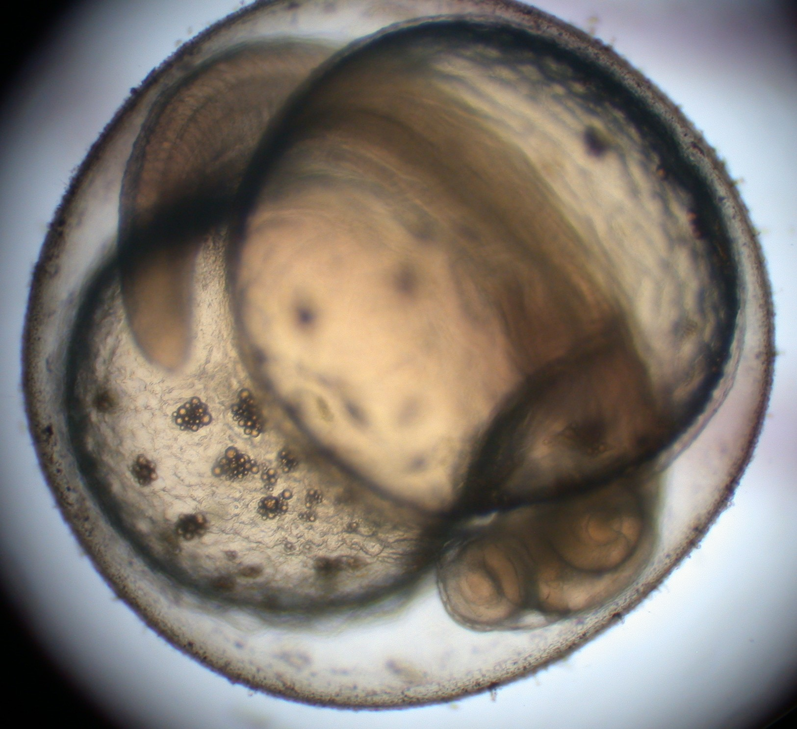 The larval stage of the dominant predator of the North. The eyes of this northern pike are visible with its body wrapped around the yolk sac. Location: Garrison Dam NFH Photo Credit: Rob Holm / USFWS Photo Contest Entry #121